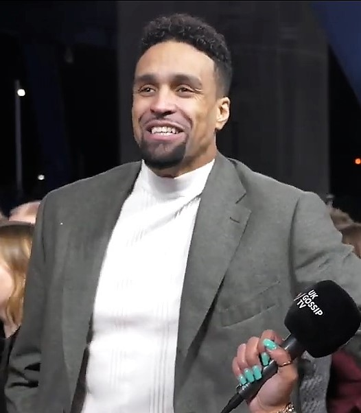 English street dancer and judge Ashley Banjo interviewed by UKGossip TV at the National Television Awards. Highlights of the National Television awards 2020 with Jourds @Jourds_ had the pleasure of gracing the NTA's red carpet at the o2 arena, inteviewing our much loved tv reality stars! Filmed and edited by @Jojobami